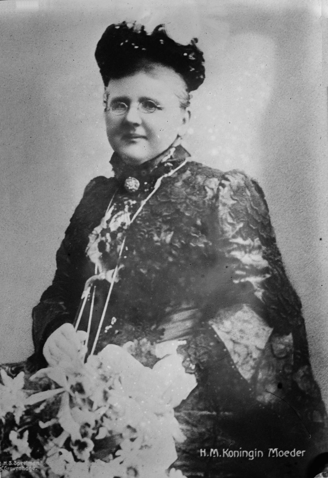 Dowager Queen of Holland